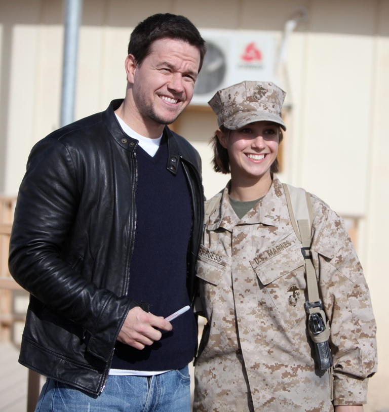 U.S. Marine Corps 2nd Lt. Rebecca Burgess, public affairs officer, 1st Marine Logistics Group (Forward), takes a photo with actor Mark Wahlberg during Wahlberg's visit to Camp Leatherneck, Afghanistan, Dec. 19. Wahlberg shook hands and took pictures with service members while thanking them for their service. More than 100 anxious fans waited in line to meet Wahlberg.